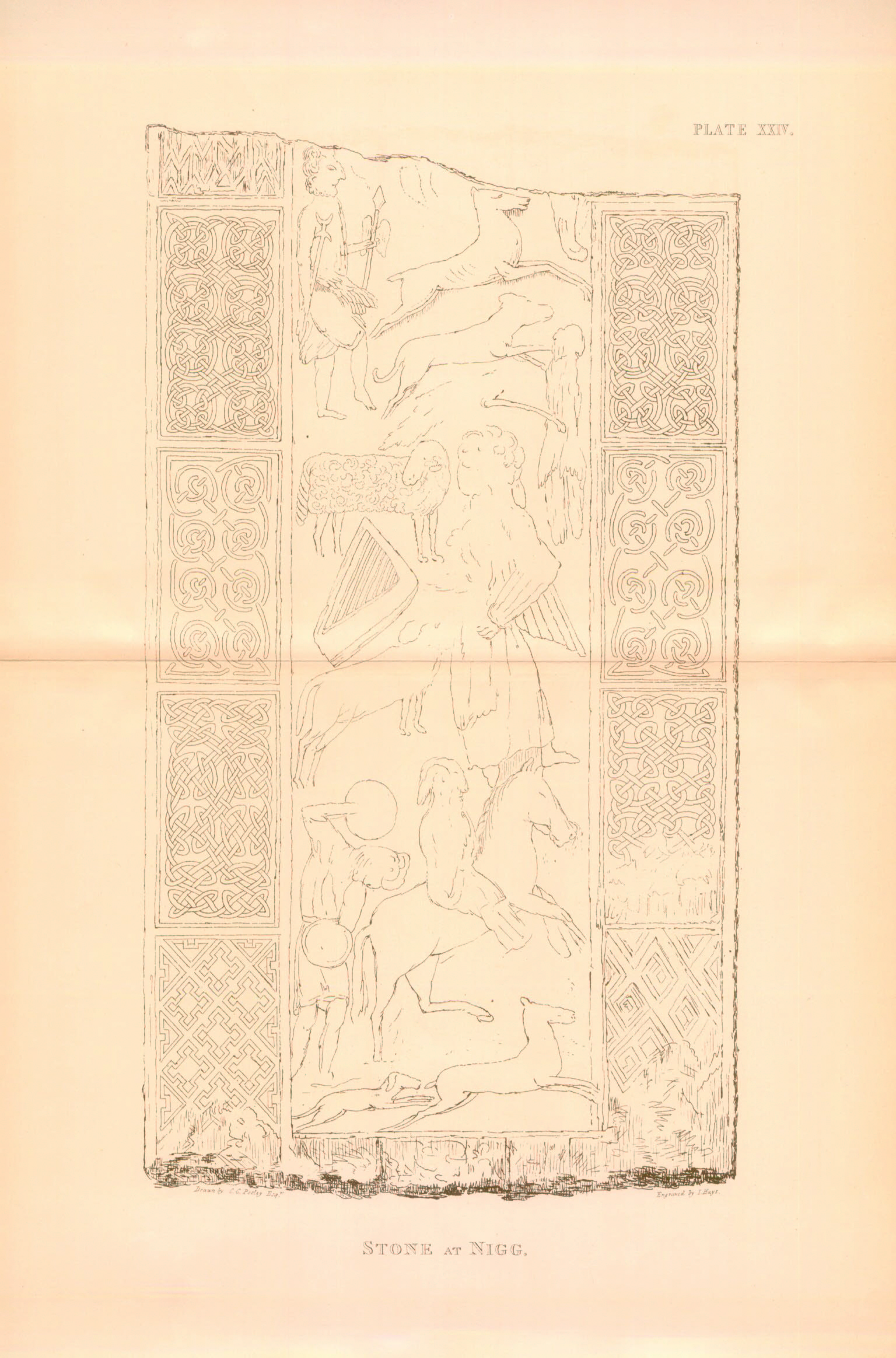 This plate is taken from "A Short Account of some Carved Stones in Ross-shire, accompanied with a series of Outline Engravings" by Charles Carter Petley and published in Archaeologia Scotica, vol IV (1857) Description.